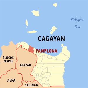 Map of Cagayan showing the location of Pamplona